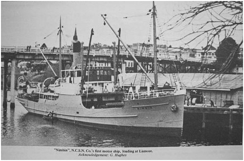 MV Nimbin 1927 to 1940 at Lismore Wharf